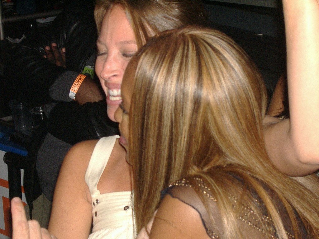 Christy Turlington and Naomi Campbell